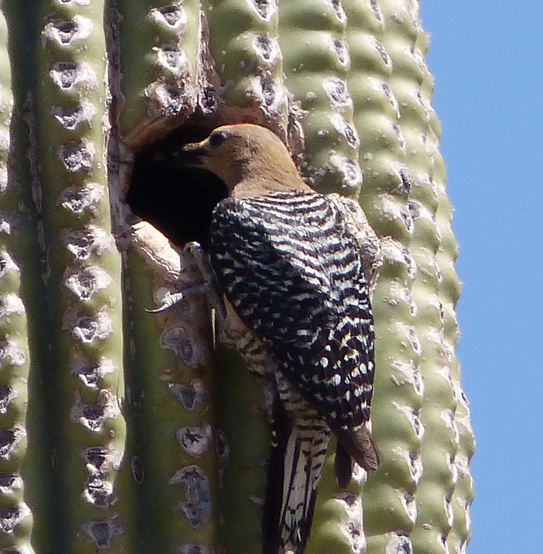 Gila Woodpecker . Melanerpes uropygialis